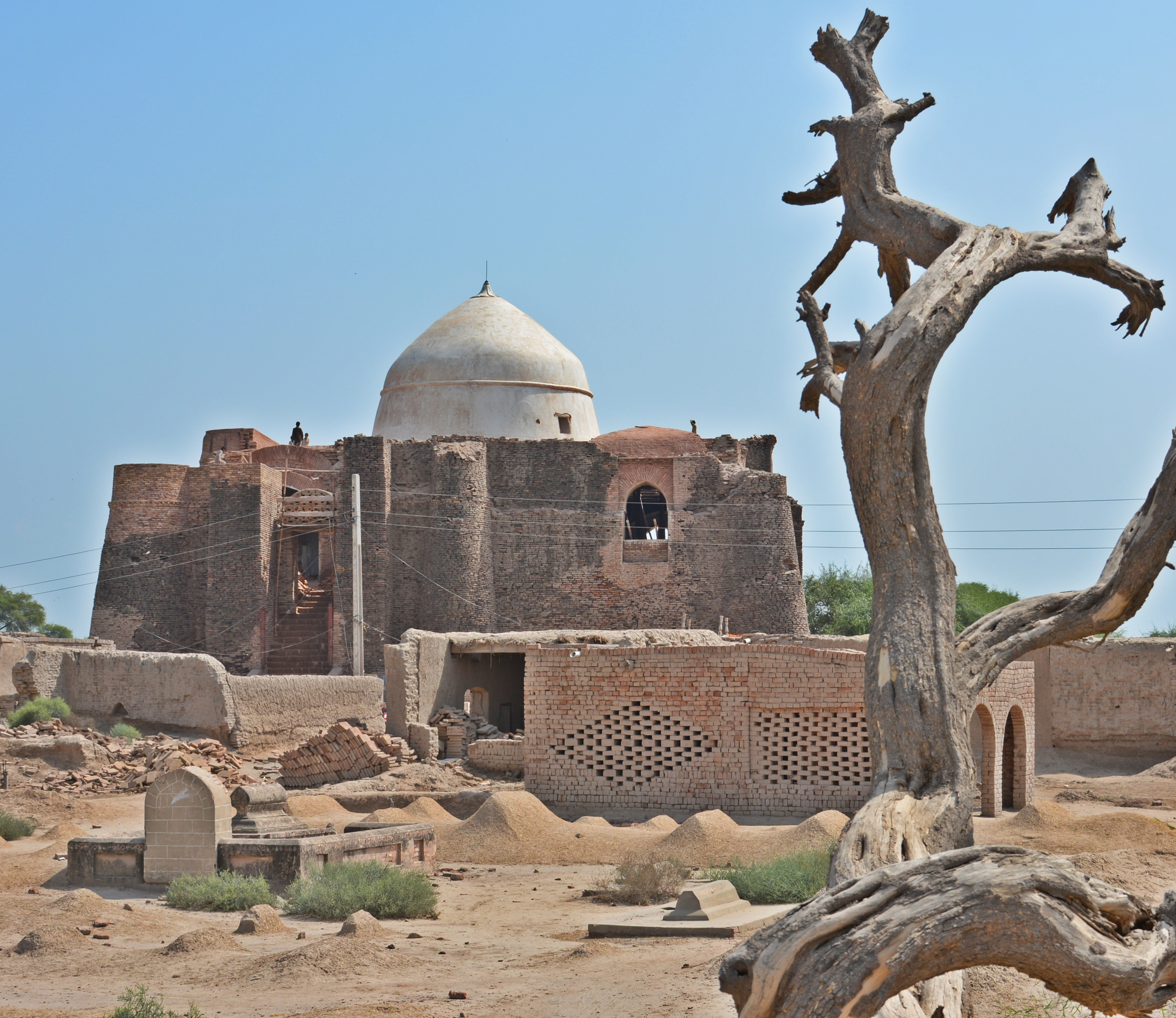 Shrine of Khalid Walid This is a photo of a monument in Pakistan identified as the PB-40